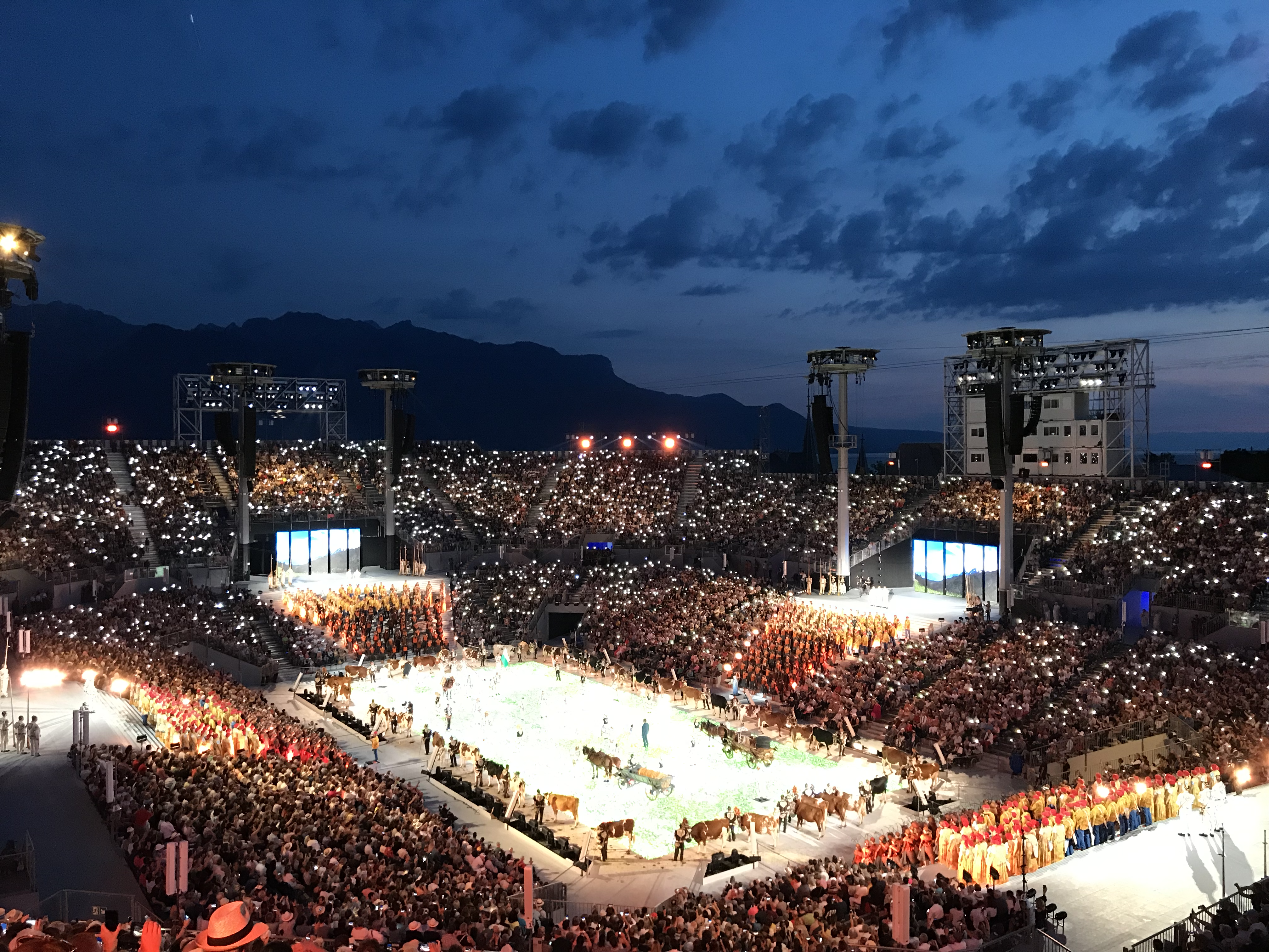 The Fête des Vignerons (Winegrowers' Festival) takes place every 20-25 years in a large arena on the market square in Vevey, Switzerland. Here, some of the 20,000 spectators illuminate the amphitheatre during the traditional song "Ranz des vaches". Cows are seen in the centre, as well as 800 singers on the side stages.